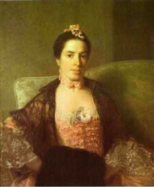 Portrait of Martha Bruce, Countess of Elgin and Kincardine (1739–1810), oil on canvas, 30 inches by 25 inches.